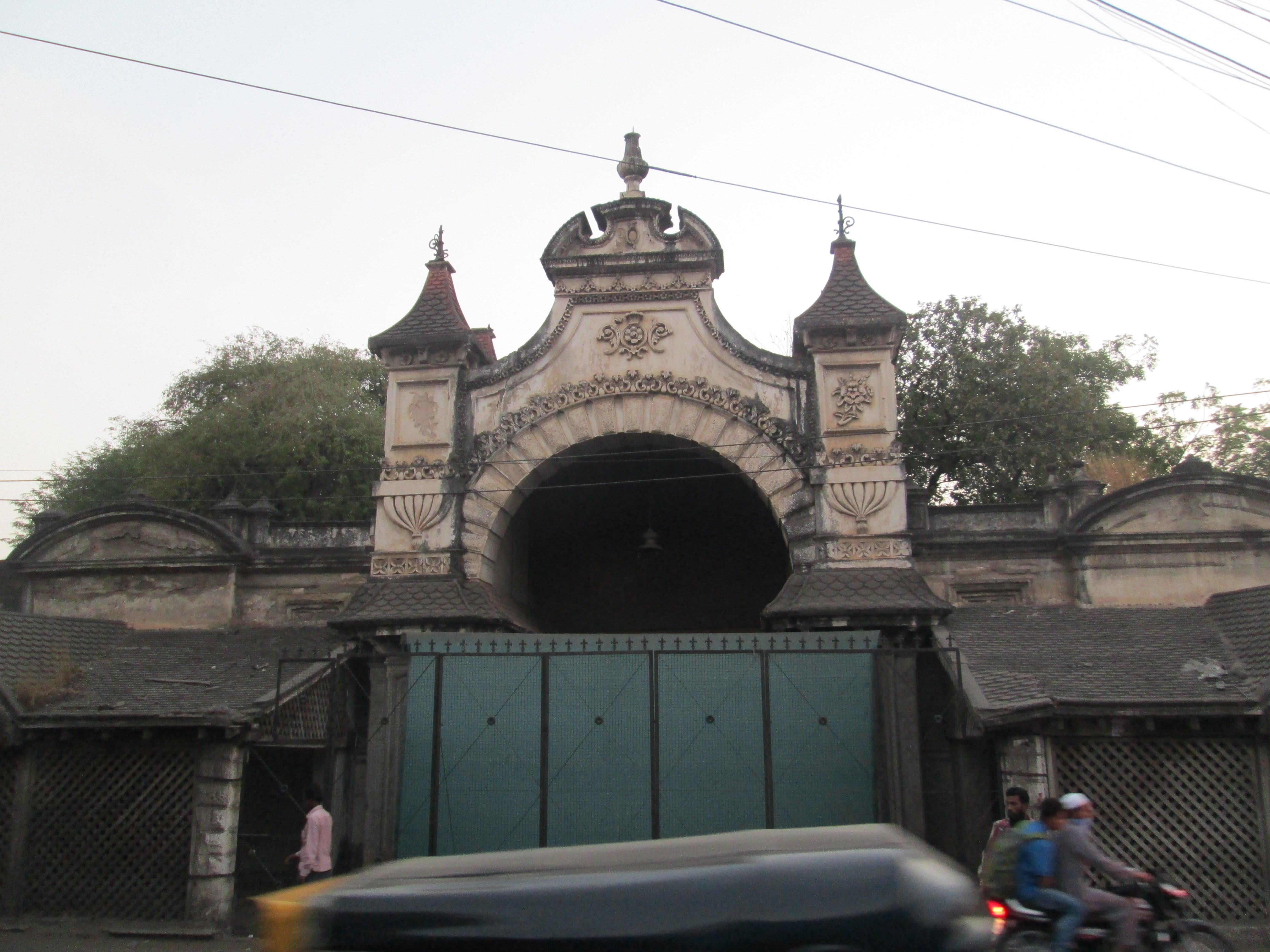 King Kothi Palace, the abode of last Nizam of Hyderabad